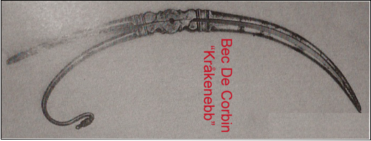 the crows beak "Bec de Corbin" designed by ambroise pare to ligate blood vessels